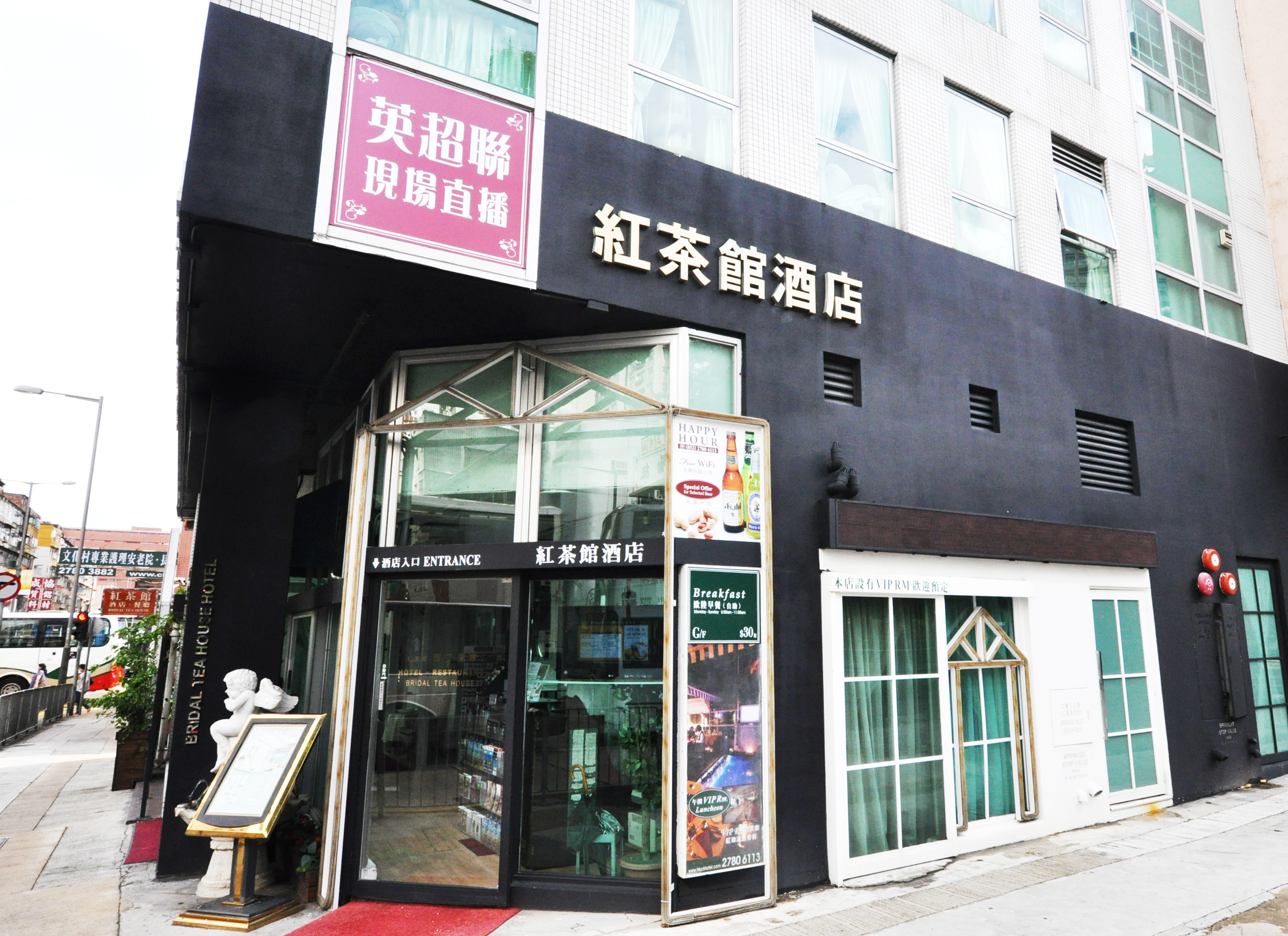 Bridal Tea House Hotel Hung Hom Wuhu Street